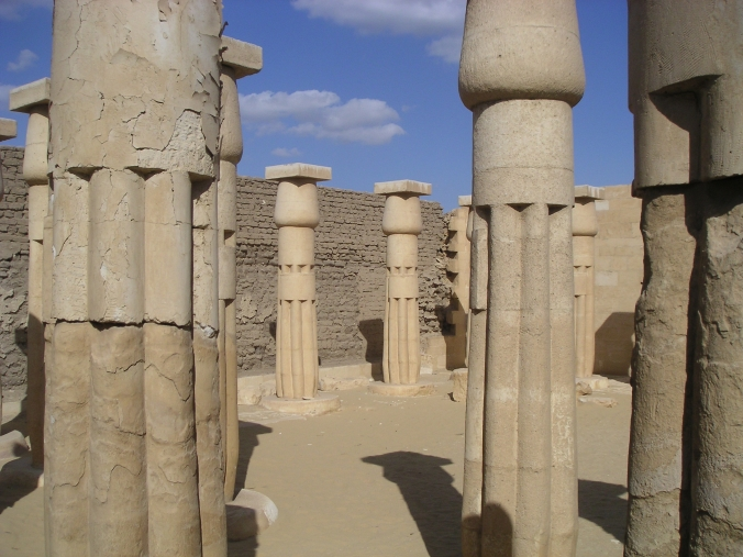 View of the courtyard of Horemheb's memphite tomb - 18th dynasty of Egypt - Saqqara